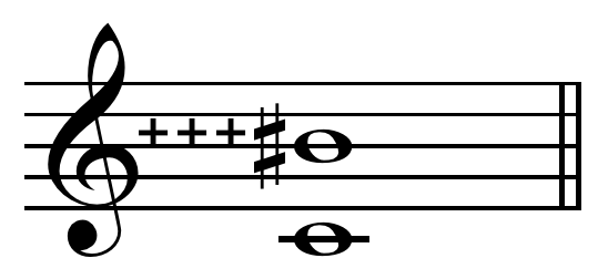 Pythagorean augmented seventh on C = B♯+++. 531441/262144 = 1223.46 cents. Limit: 3-limit.